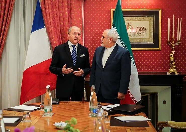 Iranian Foreign Minister Mohammad Javad Zarif meeting with Foreign Minister of France Laurent Fabius